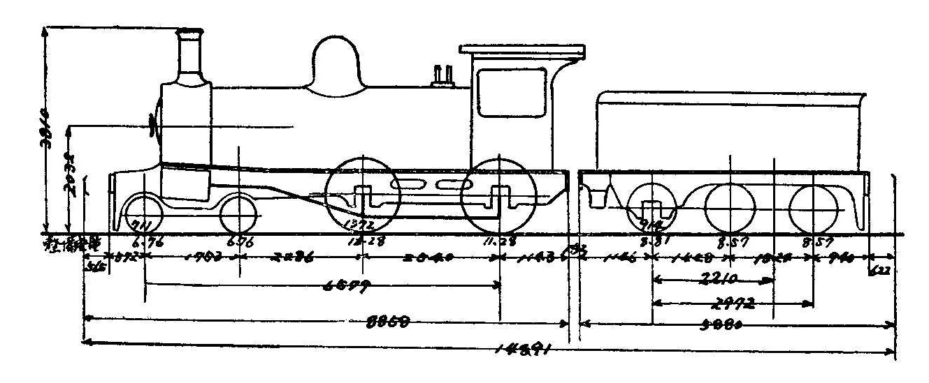 Type drawing of Taiwan Ry. E70 type steam locomotive.